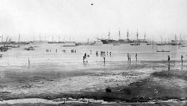 British fleet, Annesley Bay, 1867